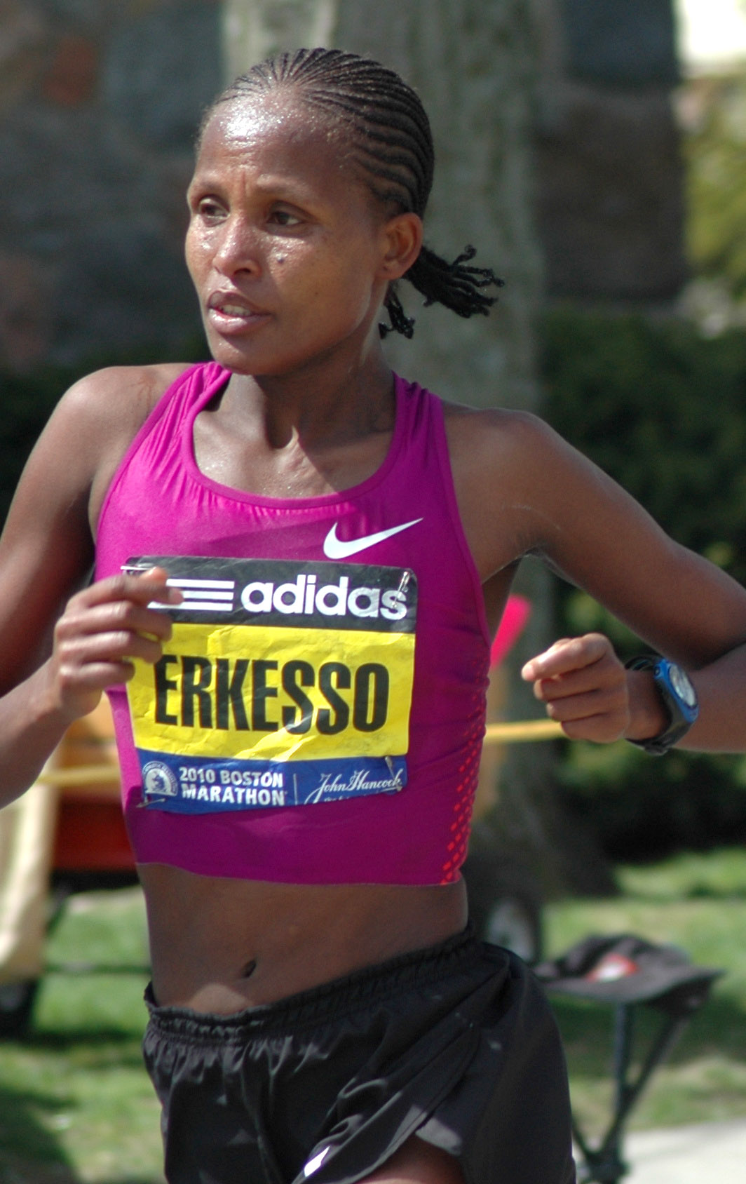 Teyba Erkesso of Ethiopia during 2010 Boston Marathon (in which she won) at half way point in Wellesley